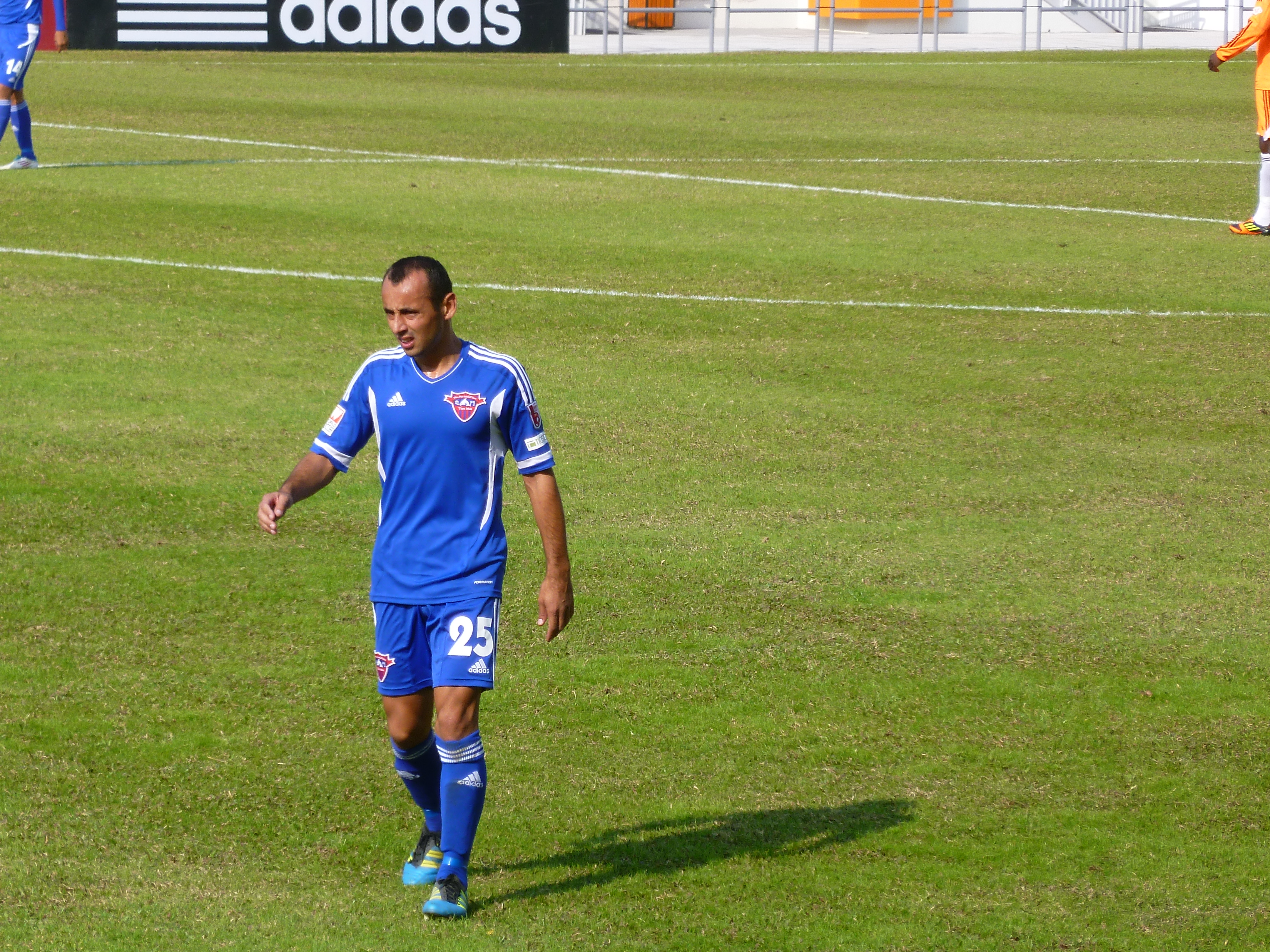 Mirko Teodorović (24 Dec 2011 Hong Kong Senior Challenge Shield semi-final 2nd round Sun Hei vs Tuen Mun at Mong Kok Stadium)